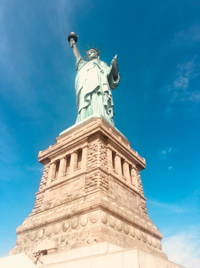 Freedom